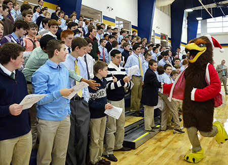 Christmas Service at Xaverian Brothers High School in 2014.